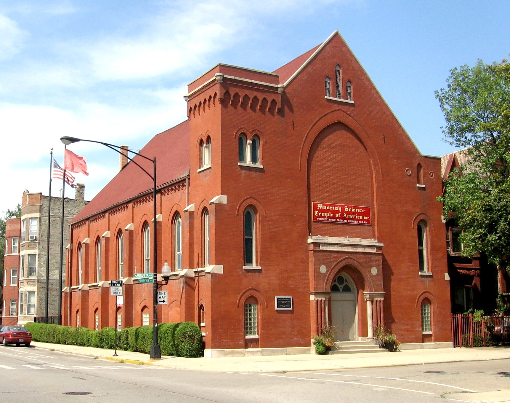 The main Moorish Science Temple temple, at 1000 N. Hoyne, Chicago, IL